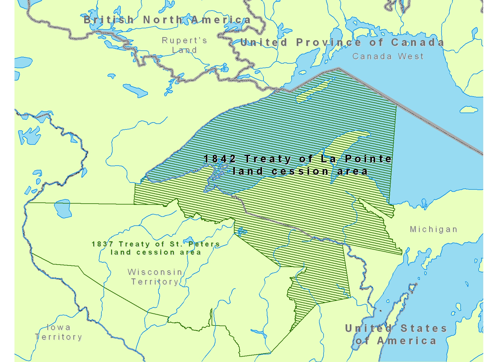 Map of Lake Superior region showing the 1842 Treaty of La Pointe land cession area of Native American tribal territories. In reference to Rupert's Land, Canada West, Michigan, Wisconsin Territory, Iowa Territory and the 1837 Treaty of St. Peters land cession area.